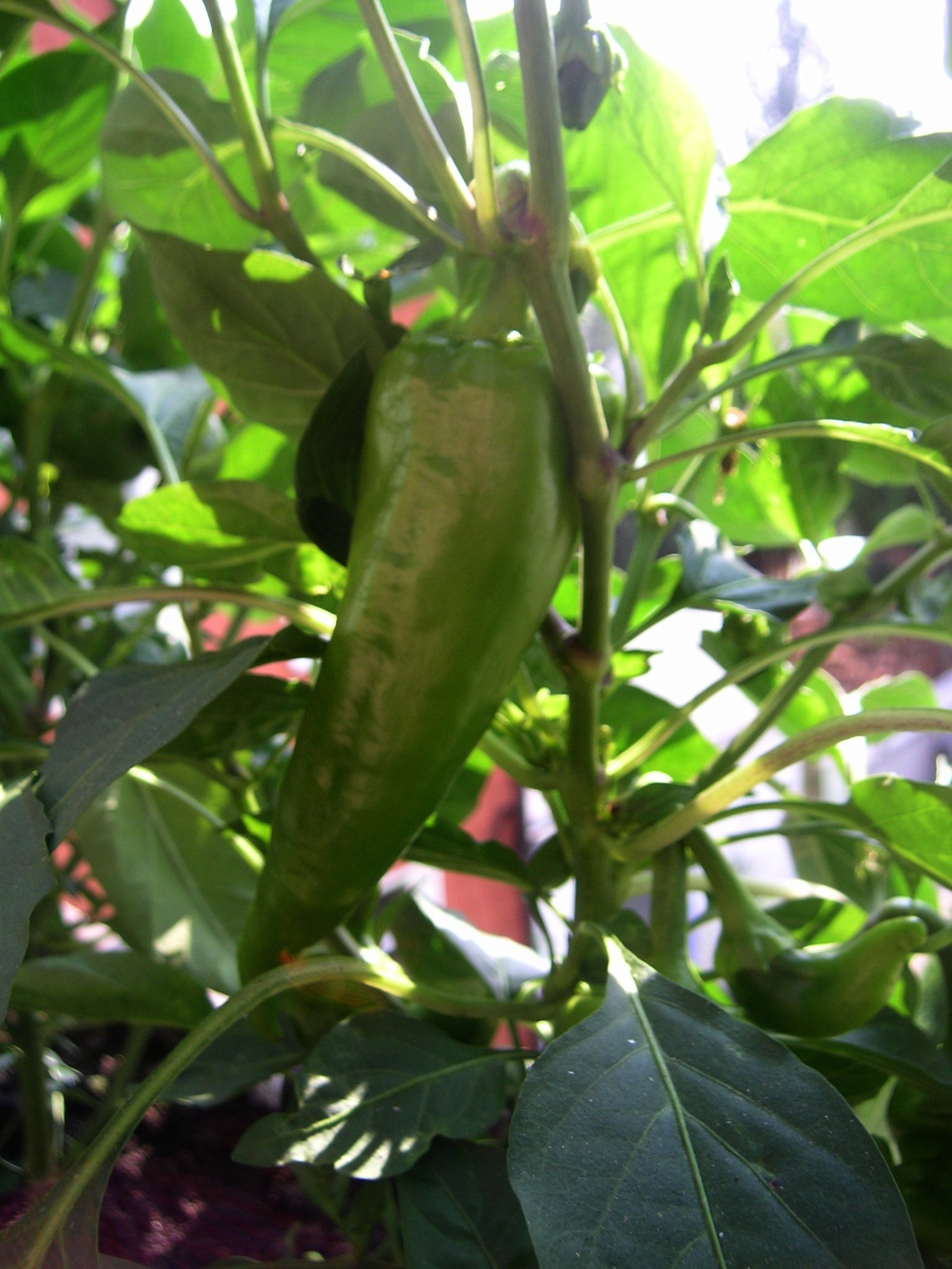 Unripe fruit of Capsicum annuum type 'Anaheim'